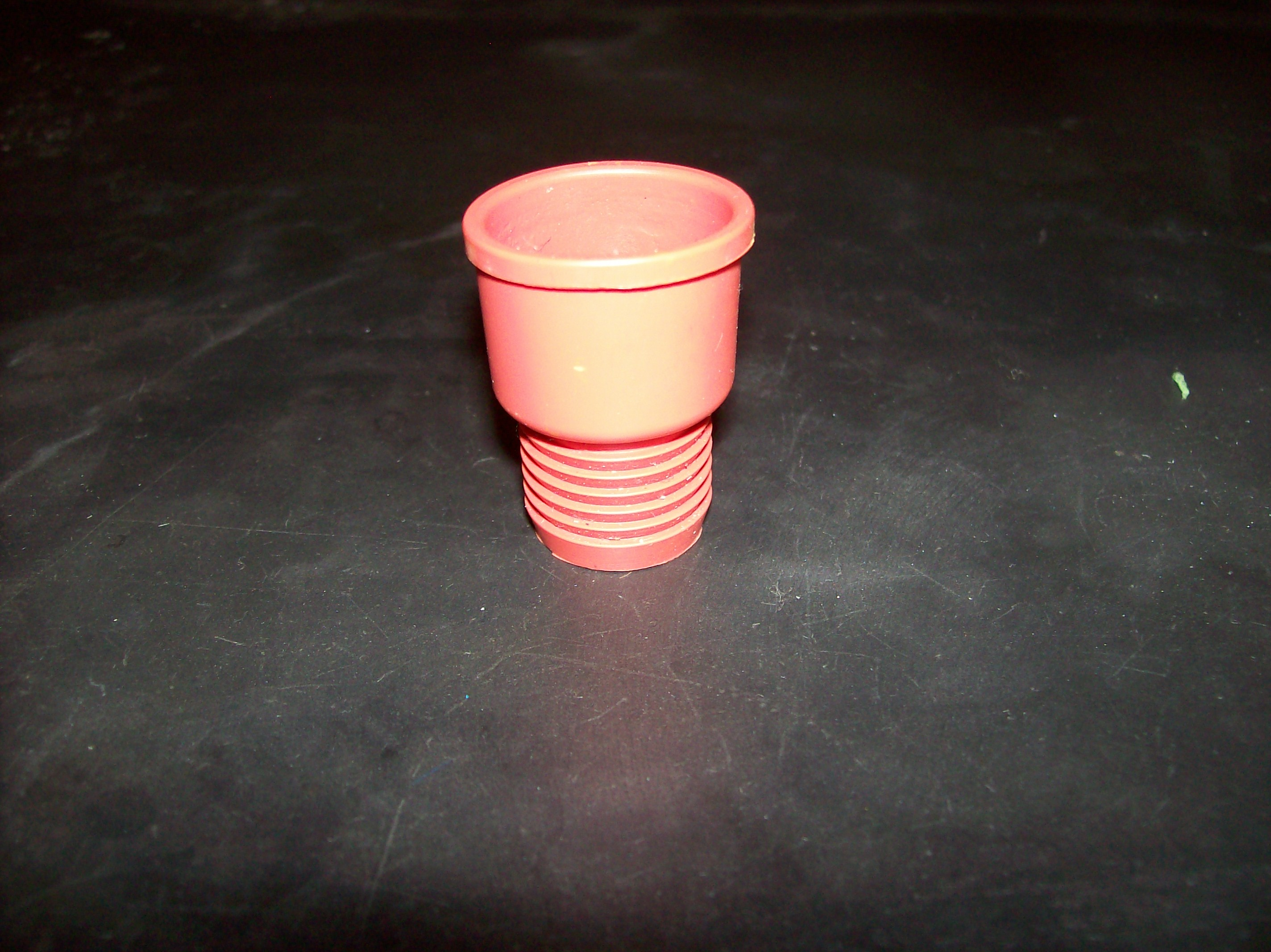 A rubber septum, as used in the chemistry laboratory